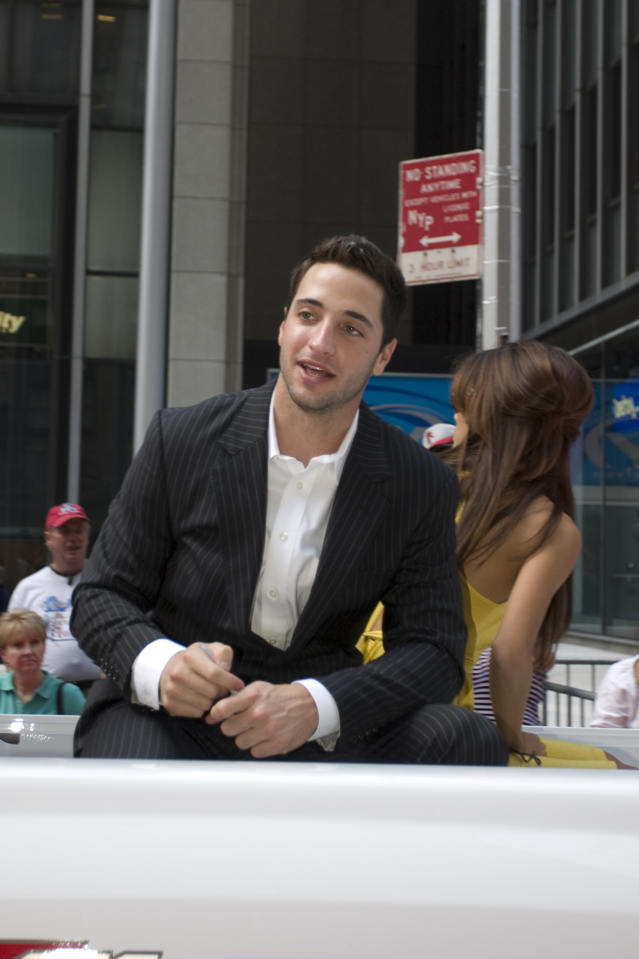 Baseball player Ryan Braun. © Rubenstein, photographer Martyna Borkowski